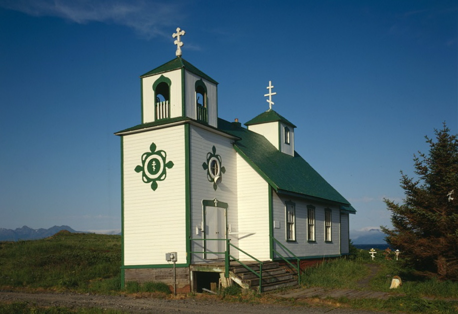 Protection of the Holy Theotokos Chapel, Akhiok, Alaska.